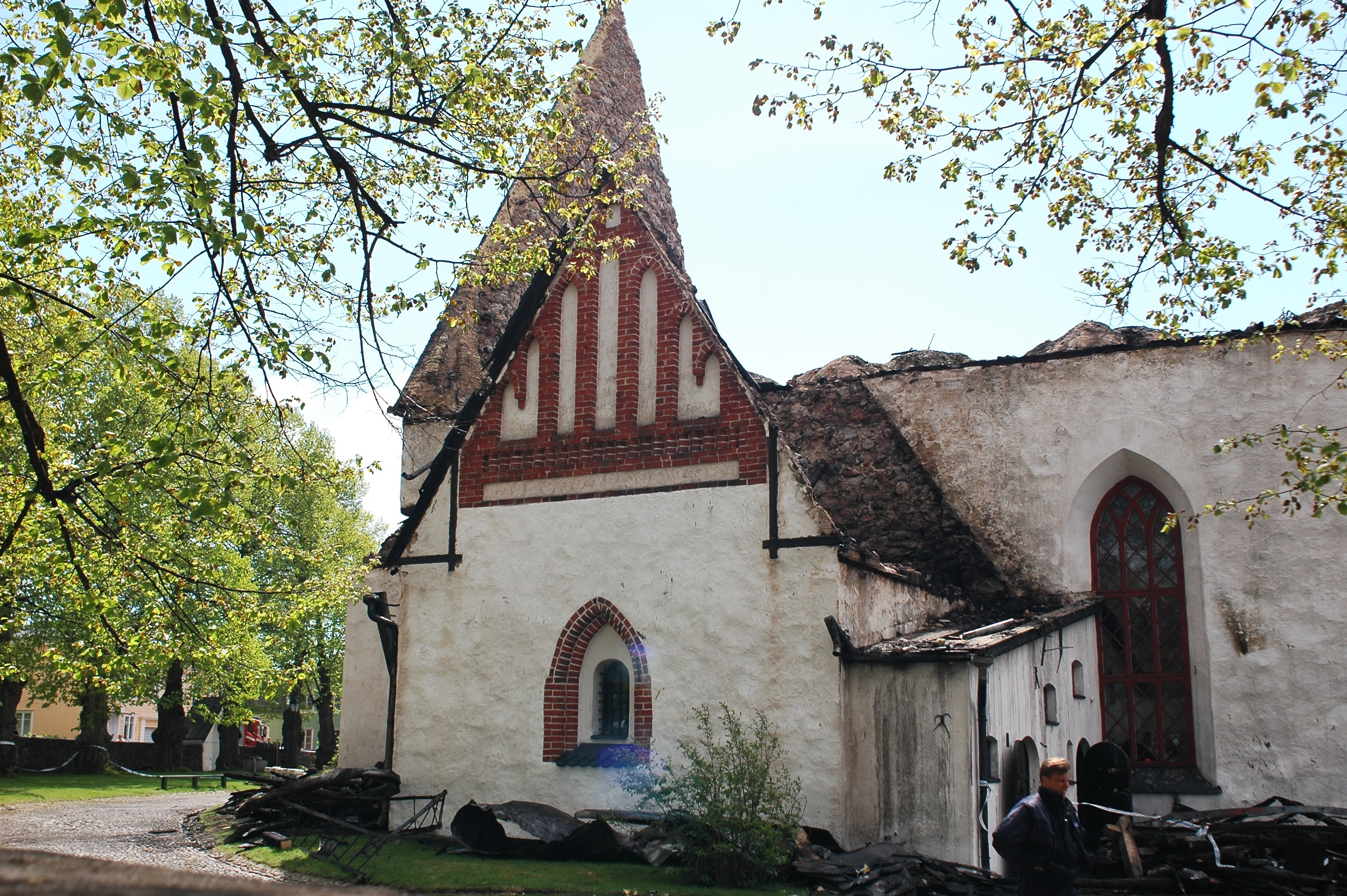 Quite sad and awful view now when the roof is gone. On the other side of the cathedral they have already started to build the construction framework to start with the rebuilding of the roof. They have yesterday taken into custody a number of people. There hasn't been that much information yet. The police onsite where in the mood of "no comments".